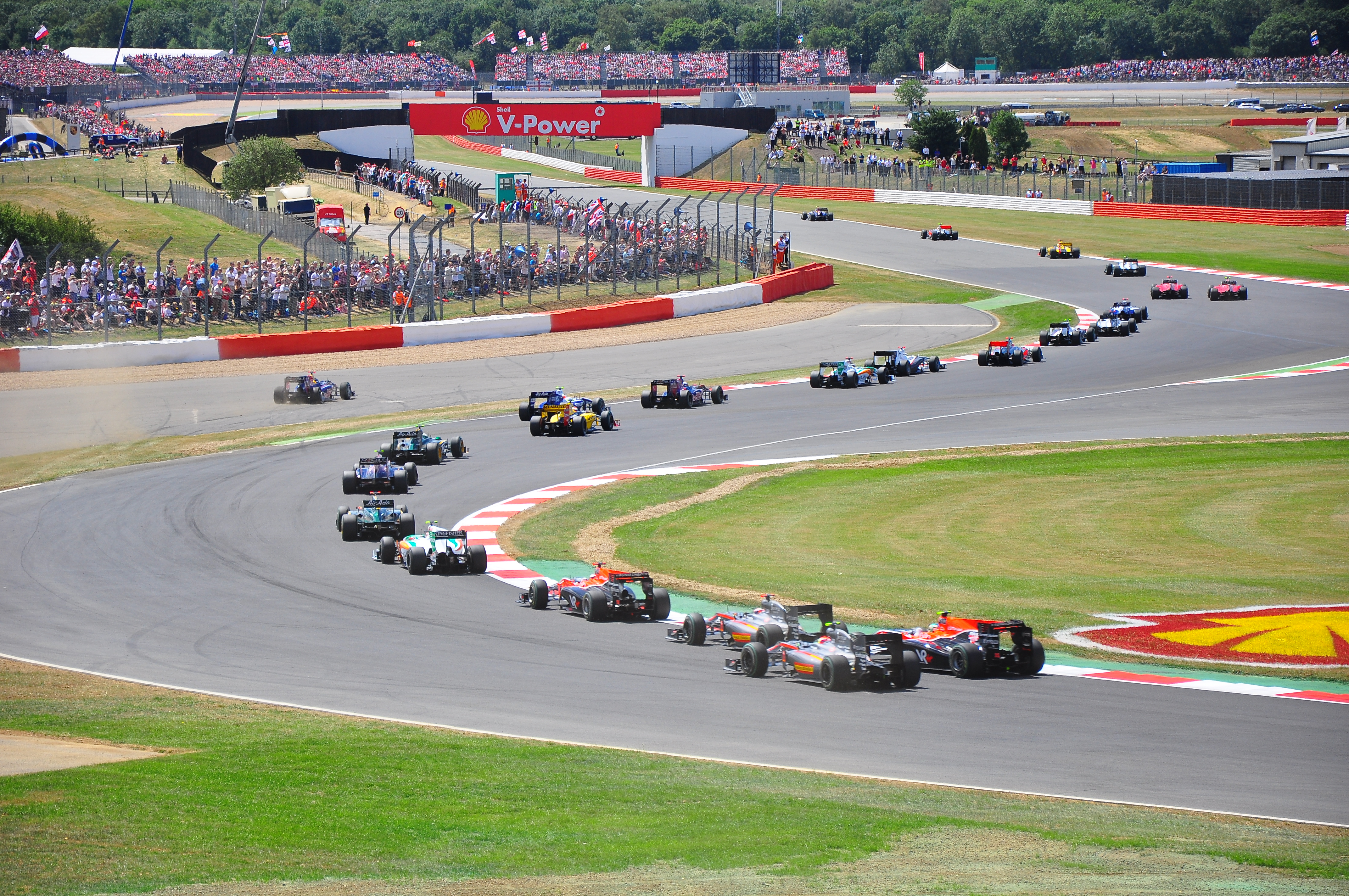 2010 British GP start